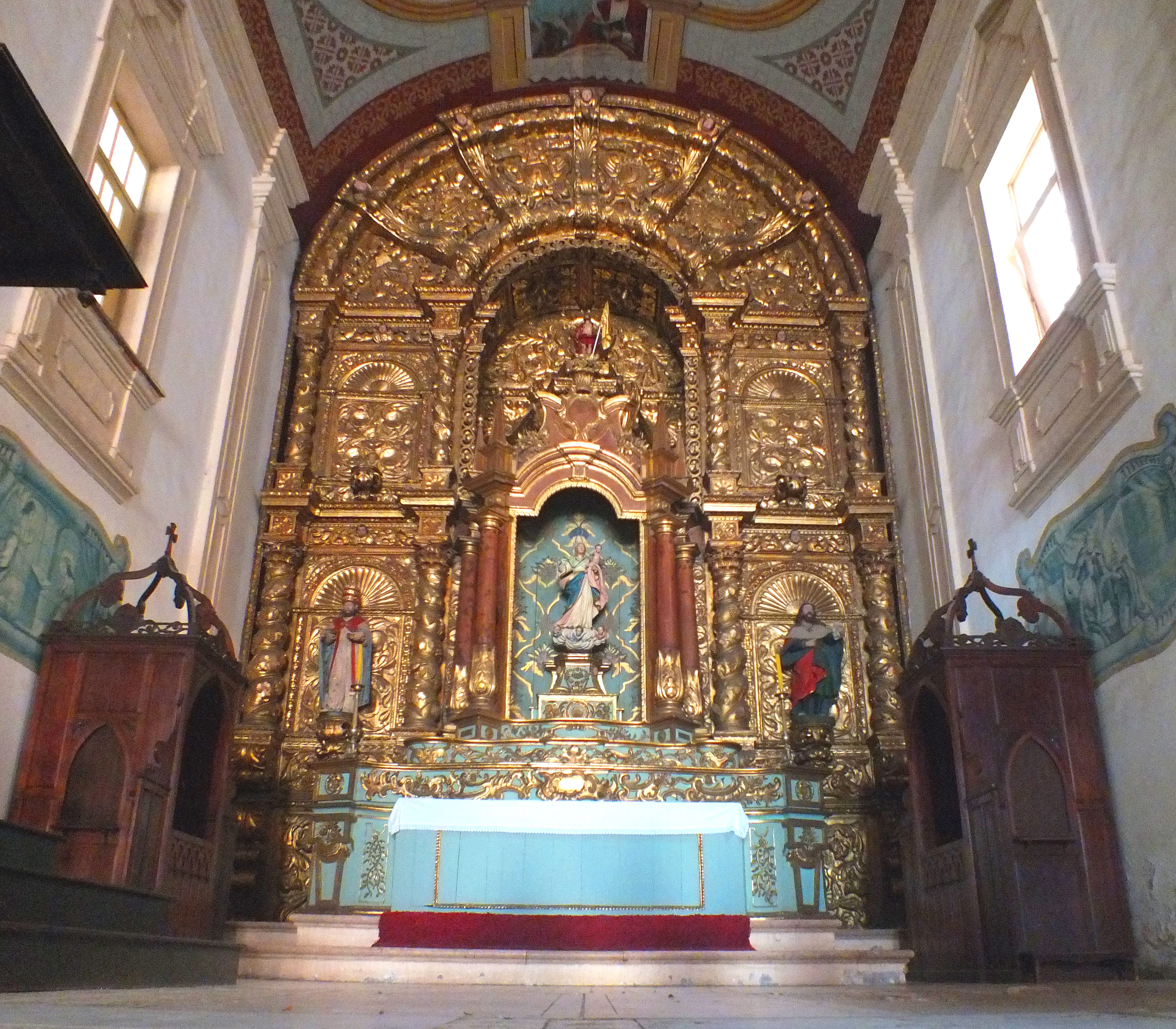 Main retable (late 17th century) of São Luís Cathedral, Brazil